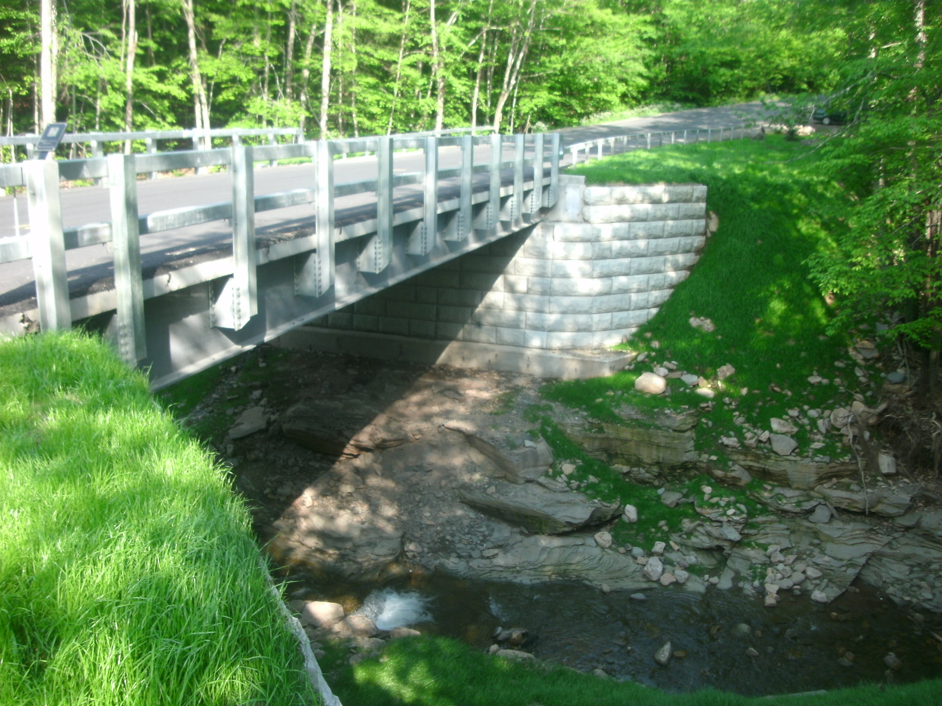 The Steven Fischer Bridge, opened 2012, on Ulster County Route 47.